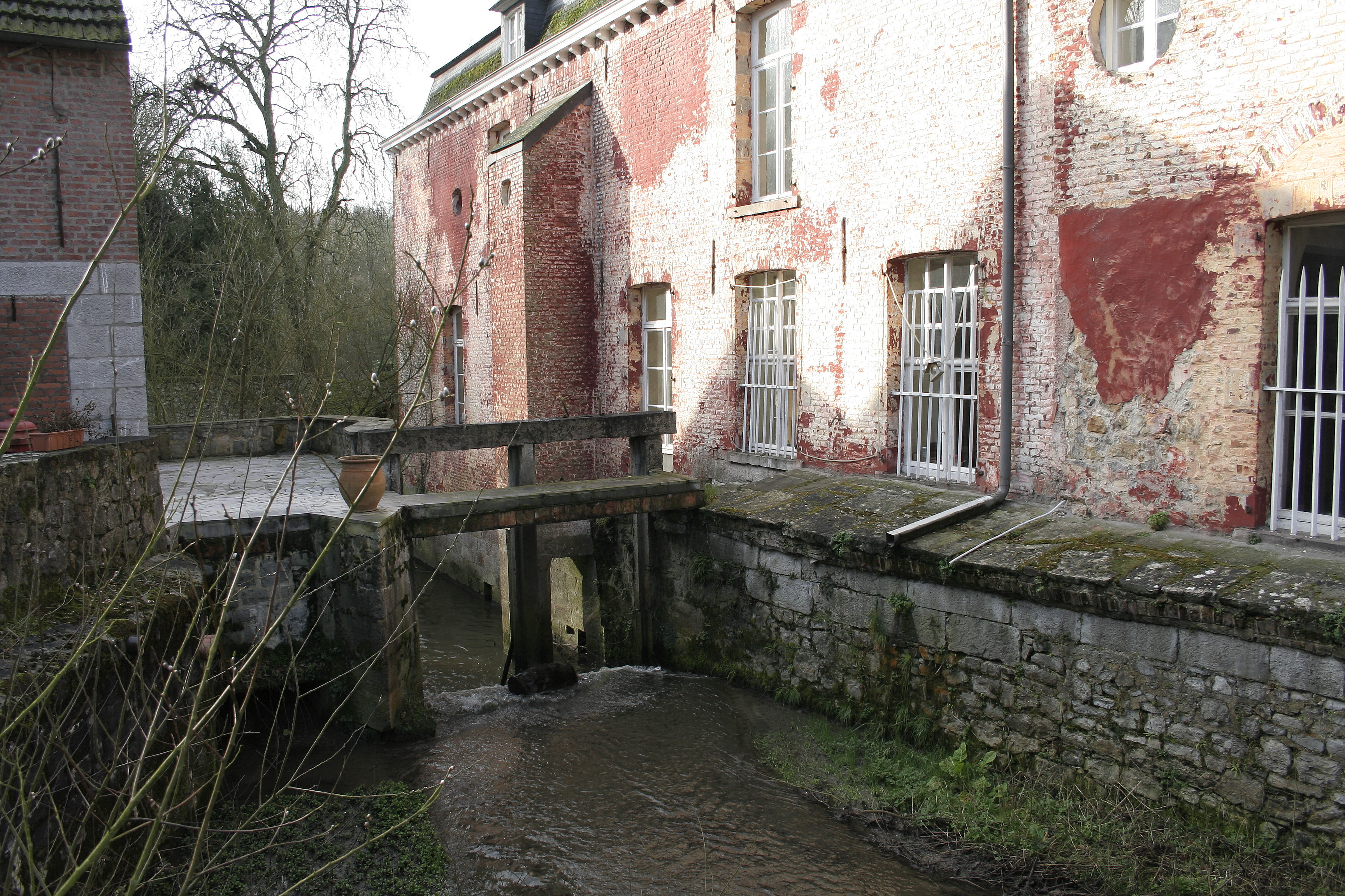 Thieusies (Belgium), the castle and the watermill of « La Roquette » (1789) on the Obrecheuil river.